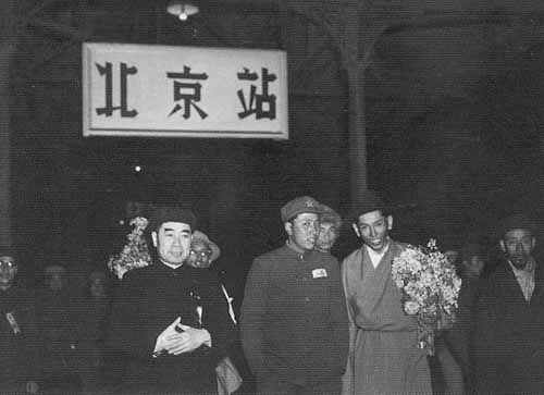 Zhou Enlai and deputies from Tibetan local government at Beijing Railway Station(Qianmen)